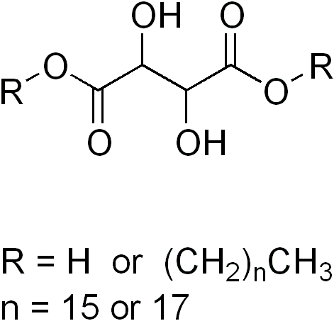 chemical structure of stearyl palmityl tartrate, E483